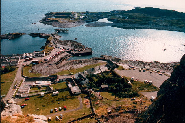 Ellenabeich. Looking down from Dun Mor. Shows abandoned slate quarry flooded with sea water to the left of harbour. Ellenabeich and Easdale Island also shown in the picture were famous for slate. This industry no longer exists, as a result there are a number of flooded slate quarries in the vicinity.